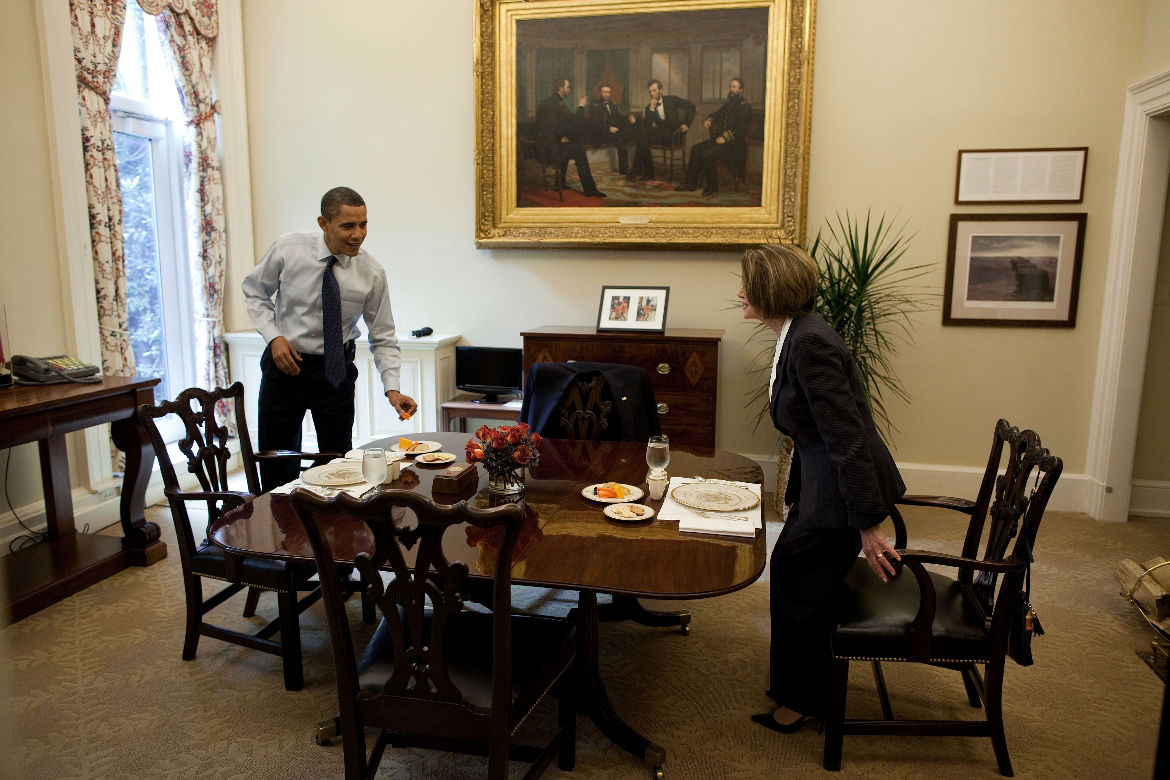 President Barack Obama and House Speaker Nancy Pelosi have lunch in the Oval Office Dining Room of the White House, Oct. 22, 2009. The painting showing President Lincoln with Union high command is The Peacemakers.